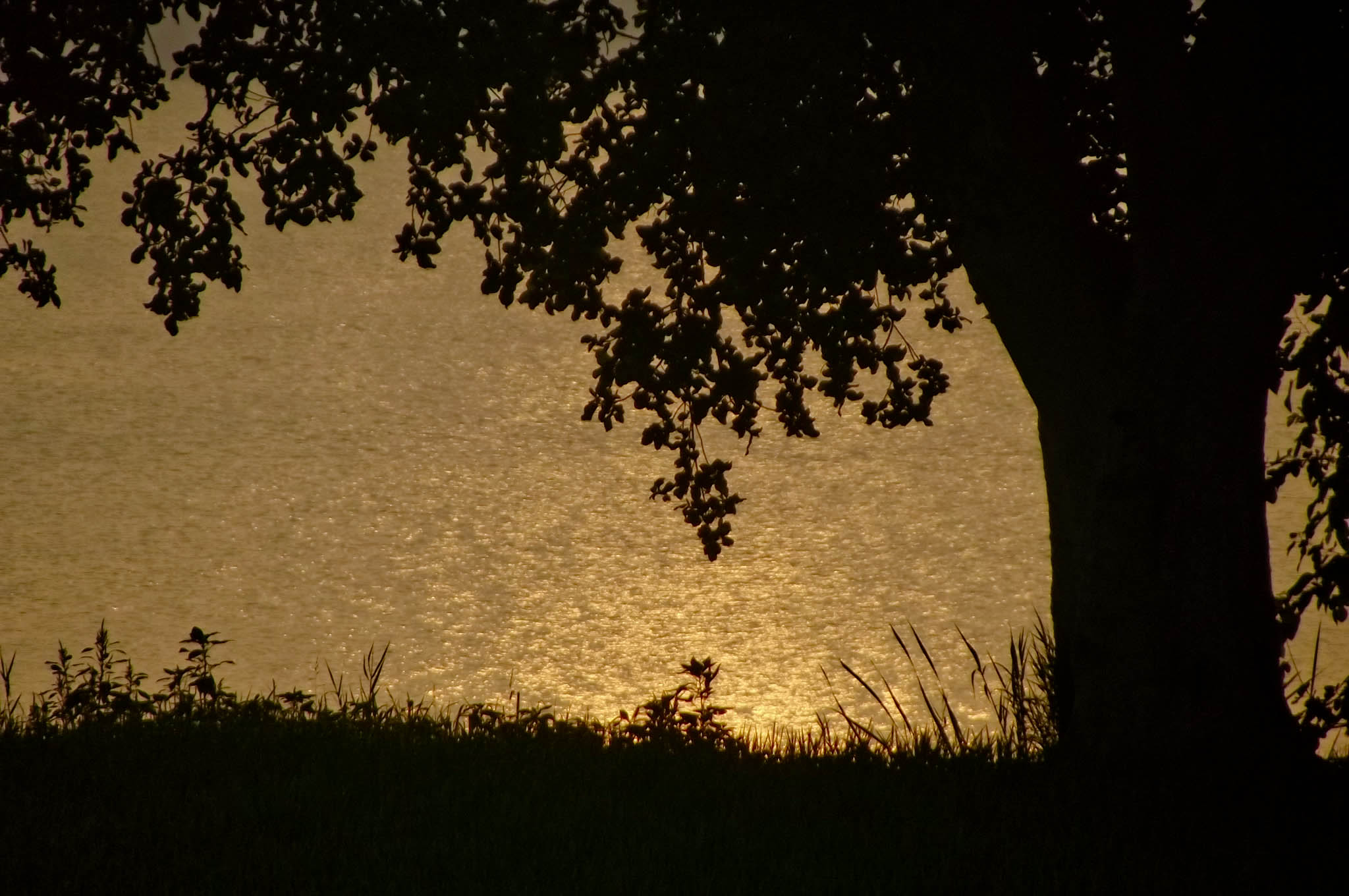 Nile in Shubrakhit